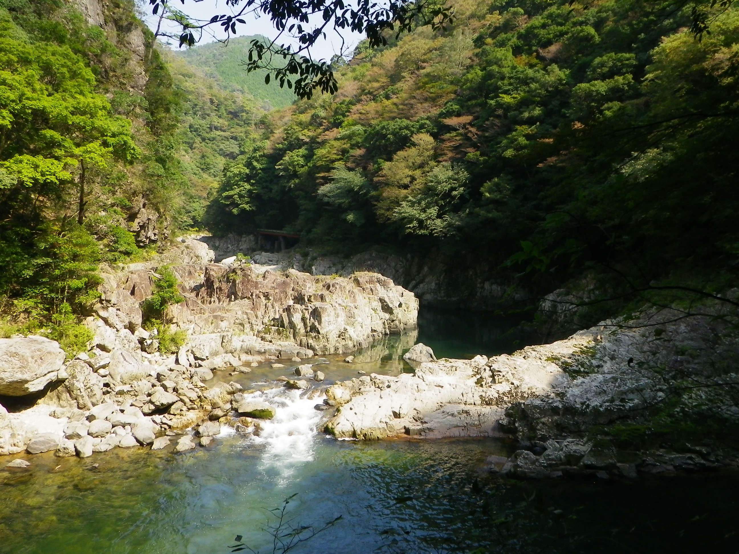 Chomonkyo valley